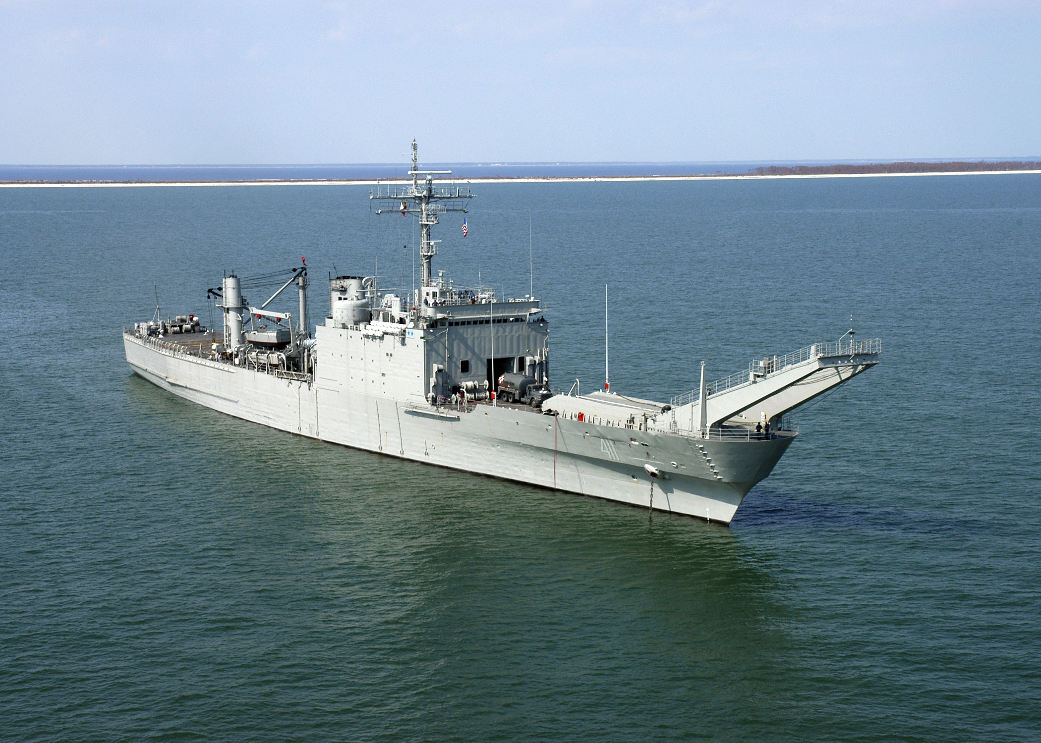 Gulf of Mexico (Sept. 9, 2005) – The Mexican Navy amphibious ship Papaloapan (P-411) (formerly USS Newport LST-1179) sits off the coast of Mississippi preparing to assist with Hurricane Katrina relief efforts along the Gulf Coast. The Mexican and Dutch Navy, have sent ships to augment joint U.S. military forces in the area. The Navy's involvement in the humanitarian assistance operation is being lead by the Federal Emergency Management Agency (FEMA), in conjunction with the Department of Defense. U.S. Navy photo by Photographer’s Mate Airman Jeremy L. Grisham (RELEASED)